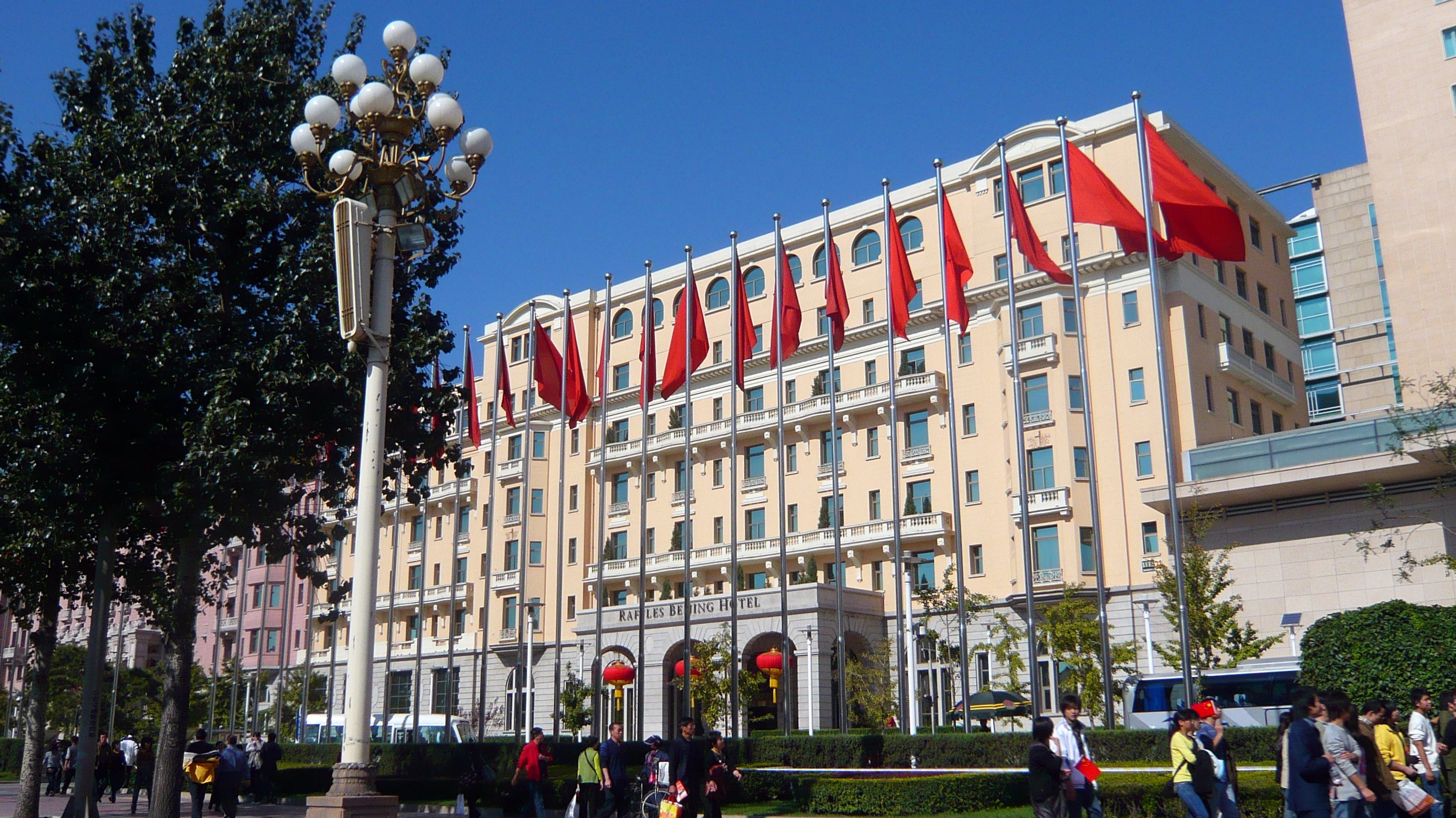 The exterior of the Raffles Beijing Hotel in Beijing, China